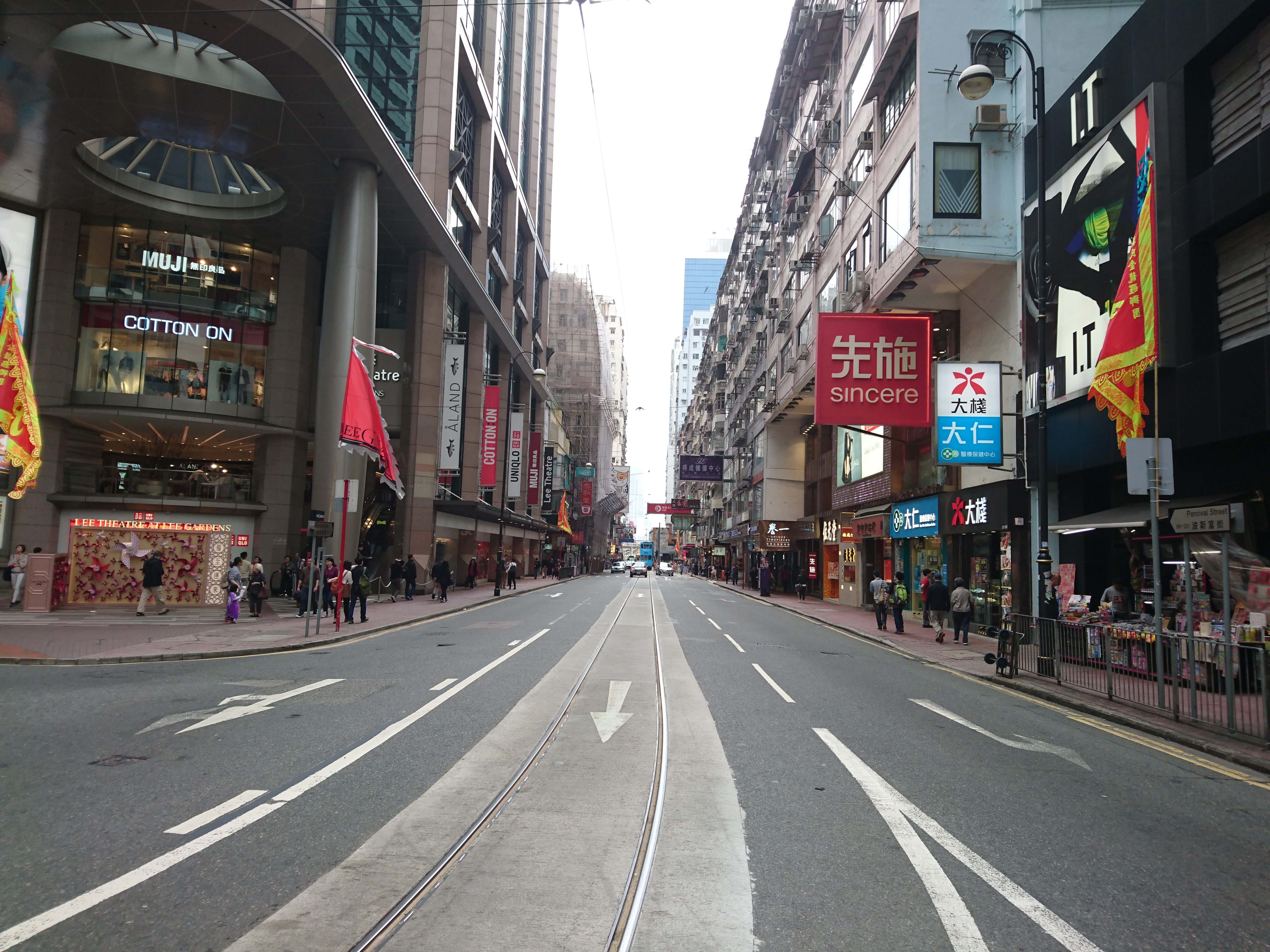 Percival Street near Lee Theatre Plaza